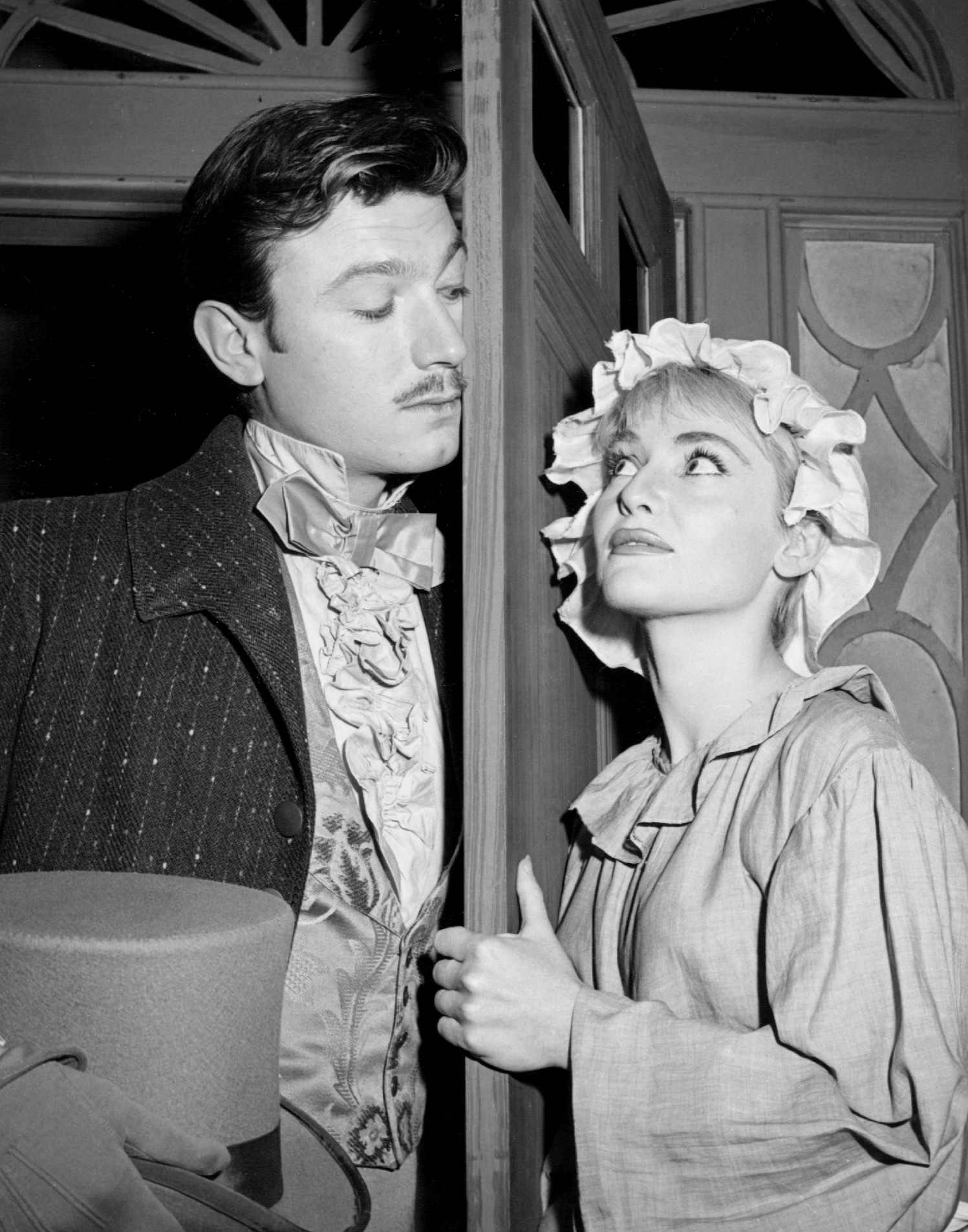 Photo of Laurence Harvey and Diane Cilento in the televisio presentation of the play "The Small Servant". Both made their US television debuts in this production for The Alcoa Hour.